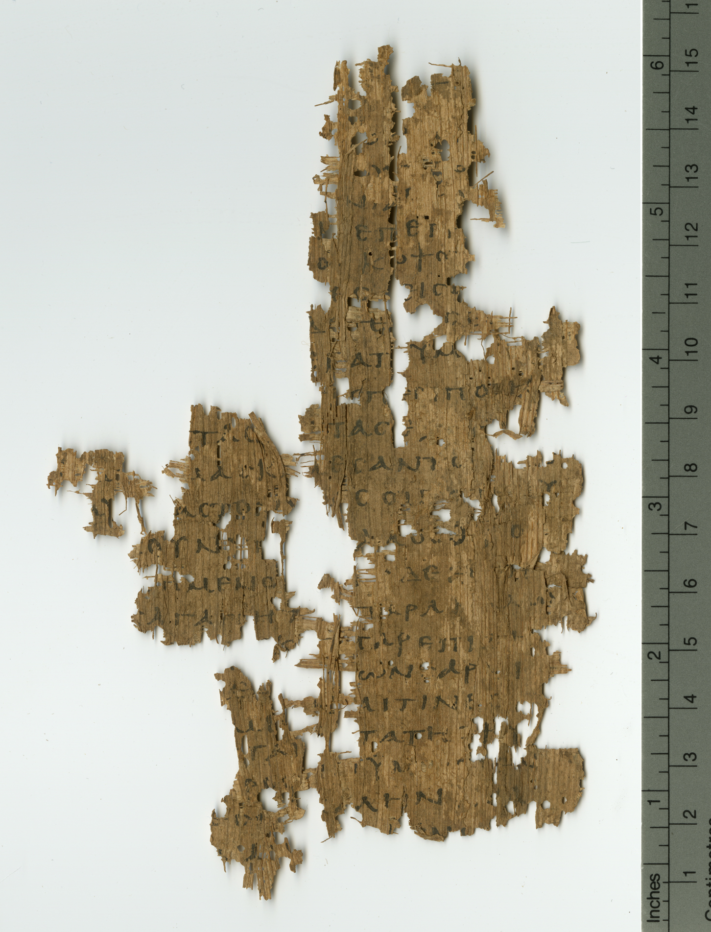 Papyrus 125 verso